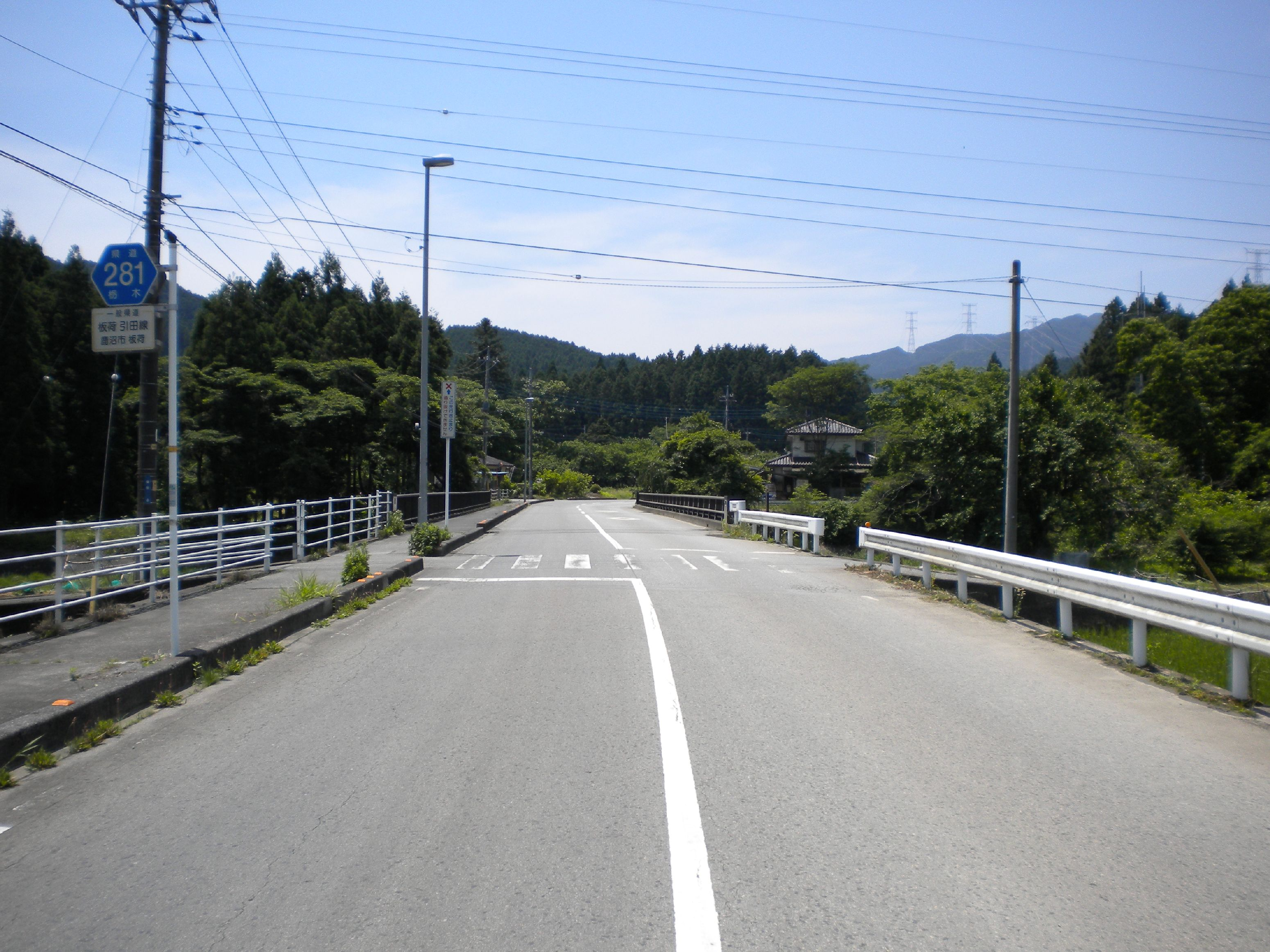 Tochigi prefectural road No.281 on Kanuma city